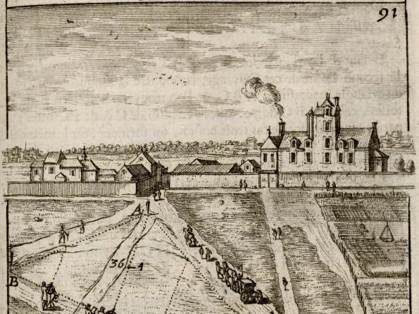 detail of the drawing "Grenelle" from Sébastien Leclerc in Géométrie pratique by Alain Manesson Mallet, 1702, volume III, p. 91. This drawings shows the castle of Grenelle (château de Grenelle) and its dependencies, in the plain of Grenelle near the Paris of that time, on today's territory of the Paris 15th district (arrondissement).